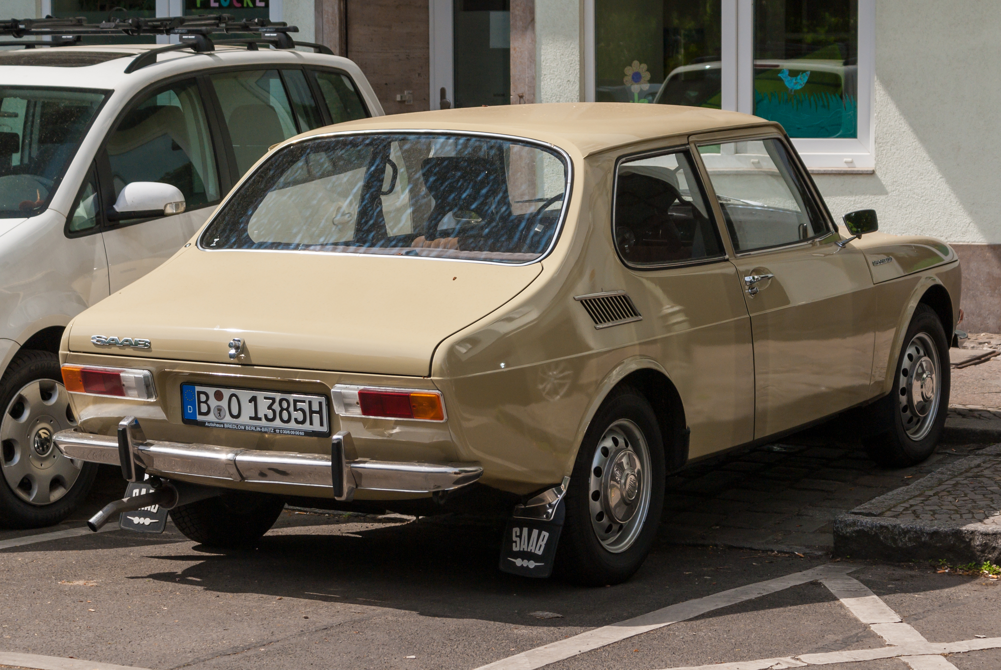 Saab 99